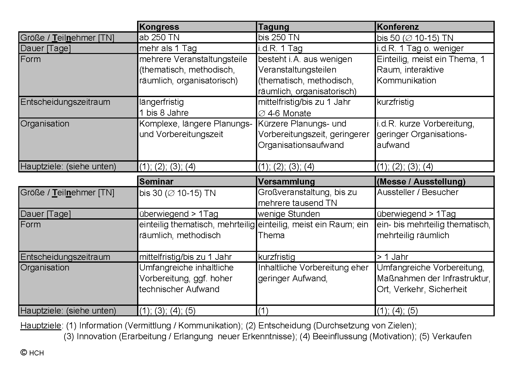 Example of a classification of the types of events and targets (Overview)